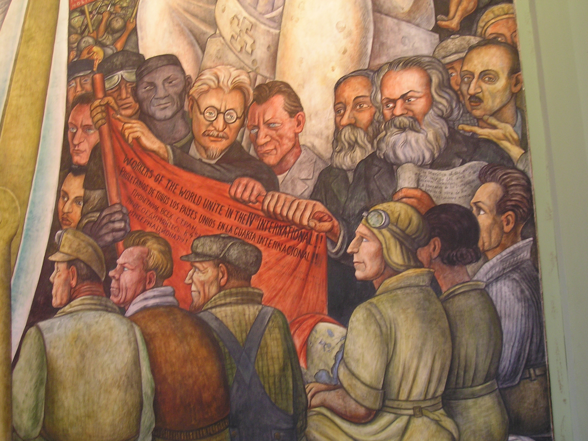 part of the Rivera mural "El hombre en cruce de caminos" (1934) in the Bellas Artes building, Mexico City.